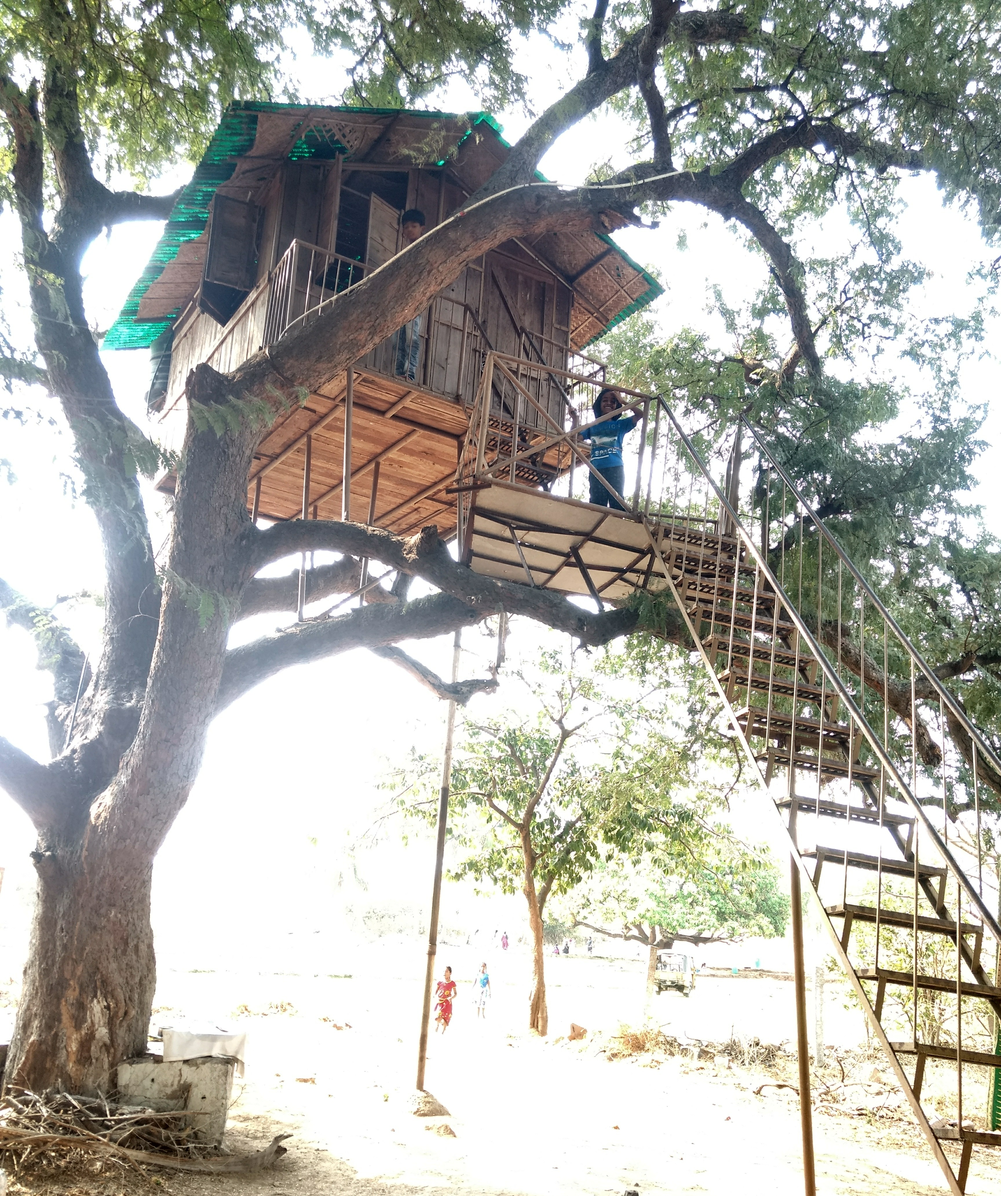 A tree house on a tree